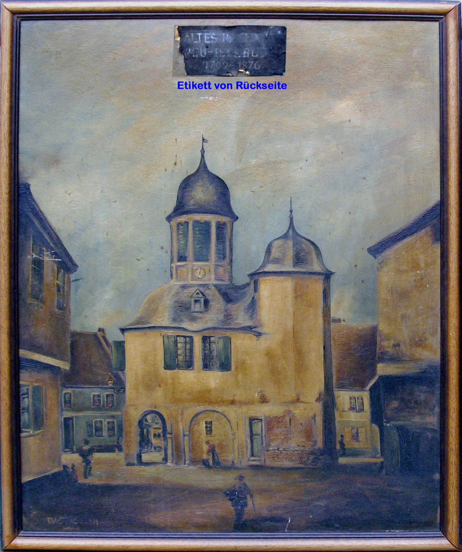 Old Oil Painting from 1911 of the Old Town Hall Neu-Isenburg 1702-1876 Painting Private Property of the Photographer Wolfgang Strieder